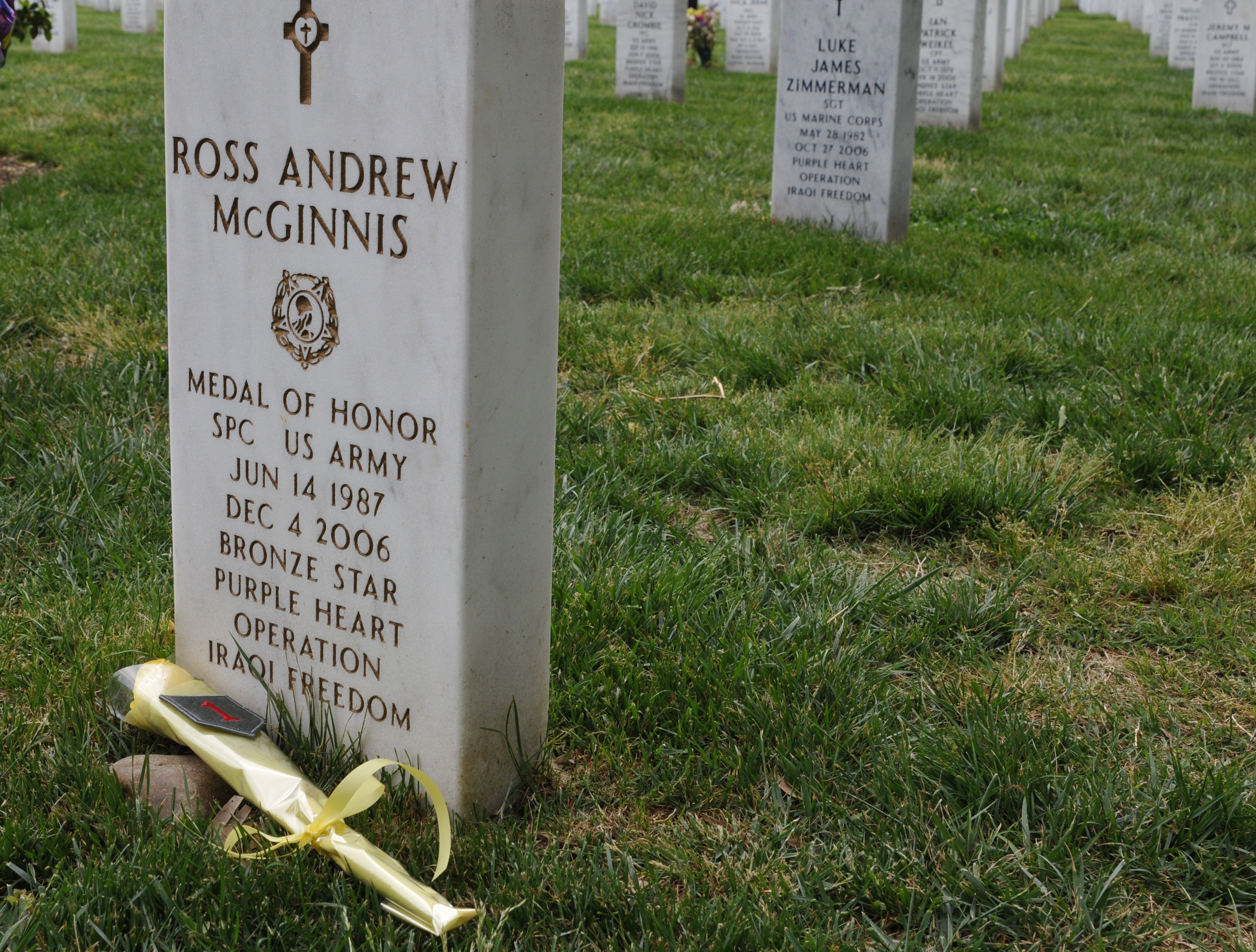 A single yellow rose adorned with the 1st Infantry Division patch lays as the base of Spc. Ross McGinnis' headstone in Arlington National Cemetery. McGinnis was killed Dec. 4, 2006, in Adhamiyah, Iraq, when an unidentified insurgent threw a fragmentation grenade into McGinnis' Humvee. Without hesitation or regard for his own life, McGinnis threw his back over the grenade, pinning it between his body and the Humvee's radio mount. McGinnis absorbed all lethal fragments and the concussive effects of the grenade with his own body. McGinnis' parents, Tom and Romayne, accepted the Medal of Honor on their son's behalf during a ceremony at the White House June 2, 2008. McGinnis was assigned to the 1st Infantry Division's 1st Battalion, 26th Infantry Regiment, 2nd Brigade Combat Team at the time of his death. The rose was placed at the grave site by 1st Infantry Division Soldiers during a recent visit to the nation's capital. Photo by Mollie Miller, 1st Infantry Division Public Affairs